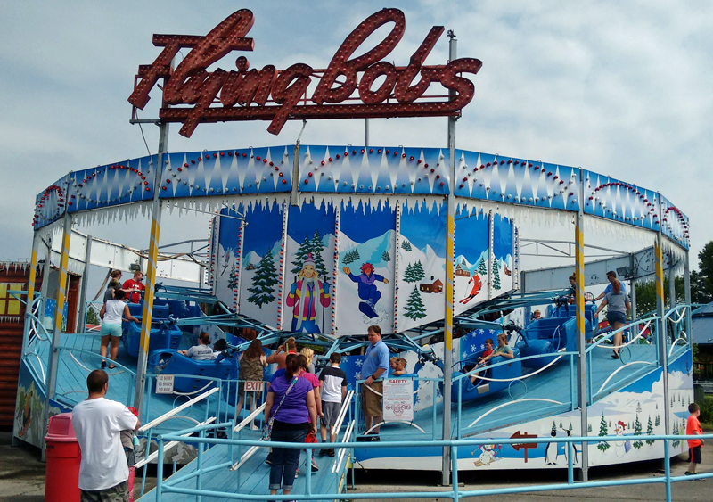 The Flying Bobs ride at Beech Bend Park in Bowling Green, Kentucky